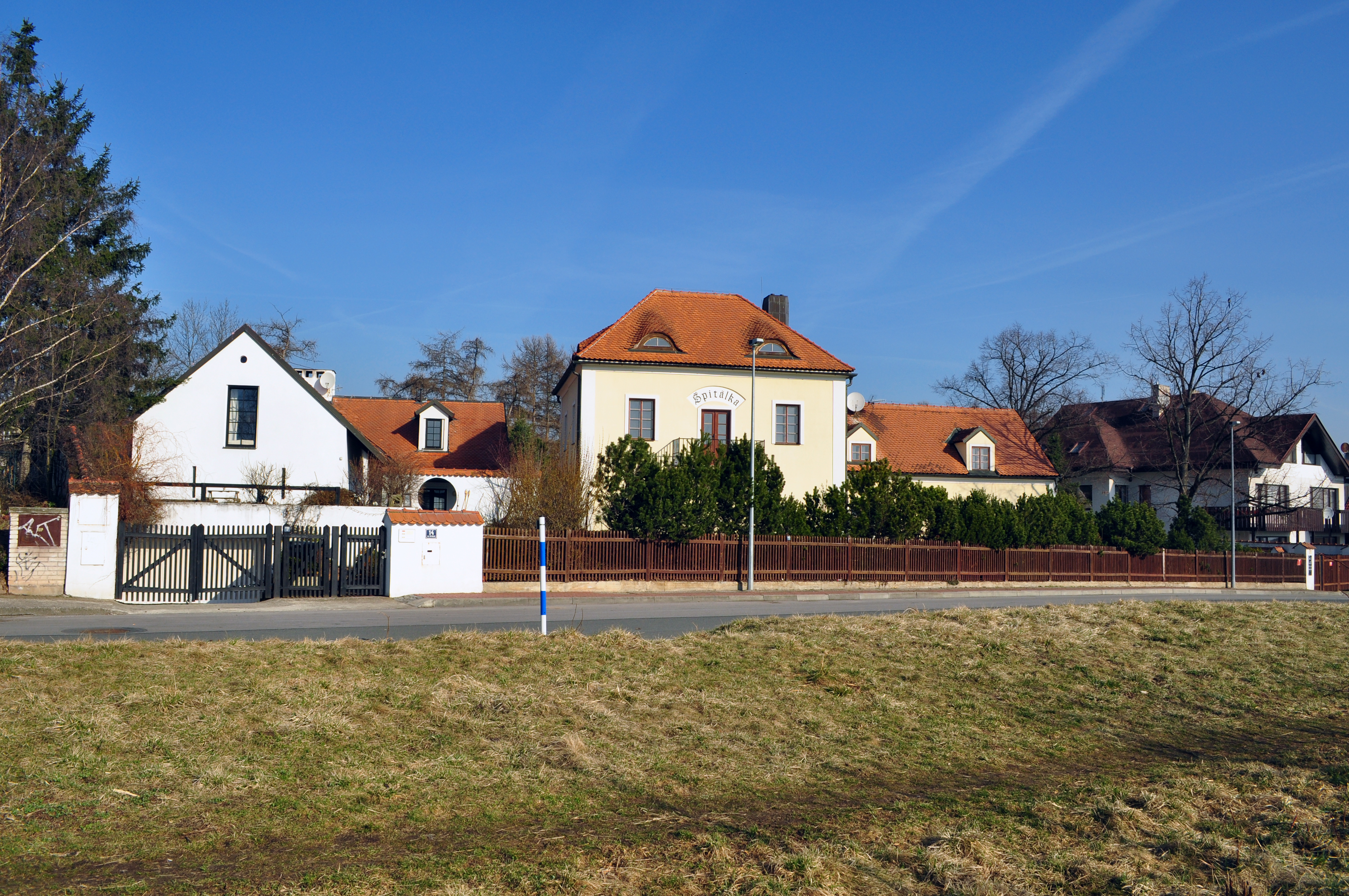 Homestead Špitálka